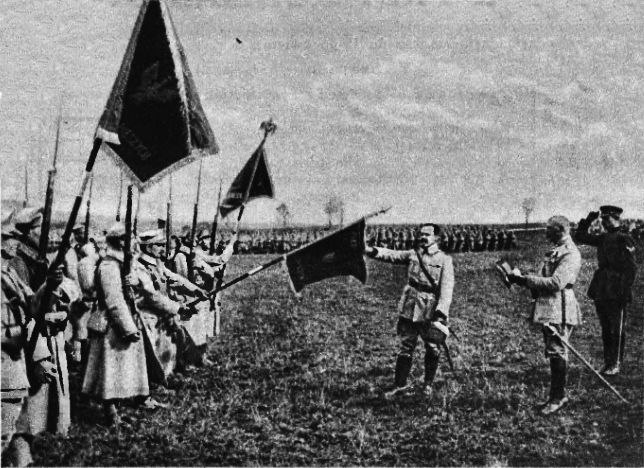 General Józef Haller (touching the flag) and his Blue Army 1918-1922